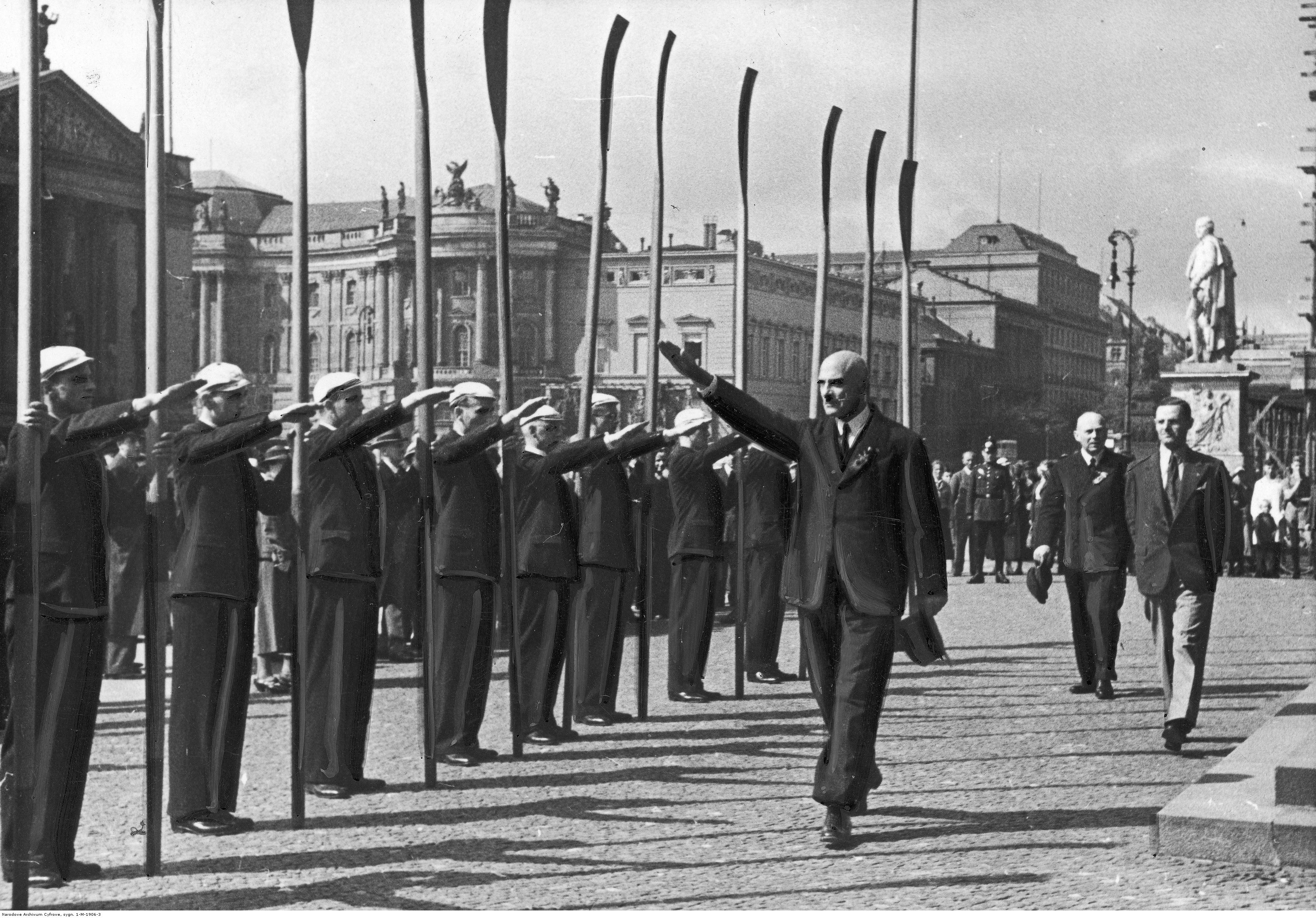 1935 European Rowing Championships in Berlin: Rico Fioroni, the president of FISA, gives a Nazi salute to rowing delegates before laying a wreath on the Tomb of the Unknown Soldier.